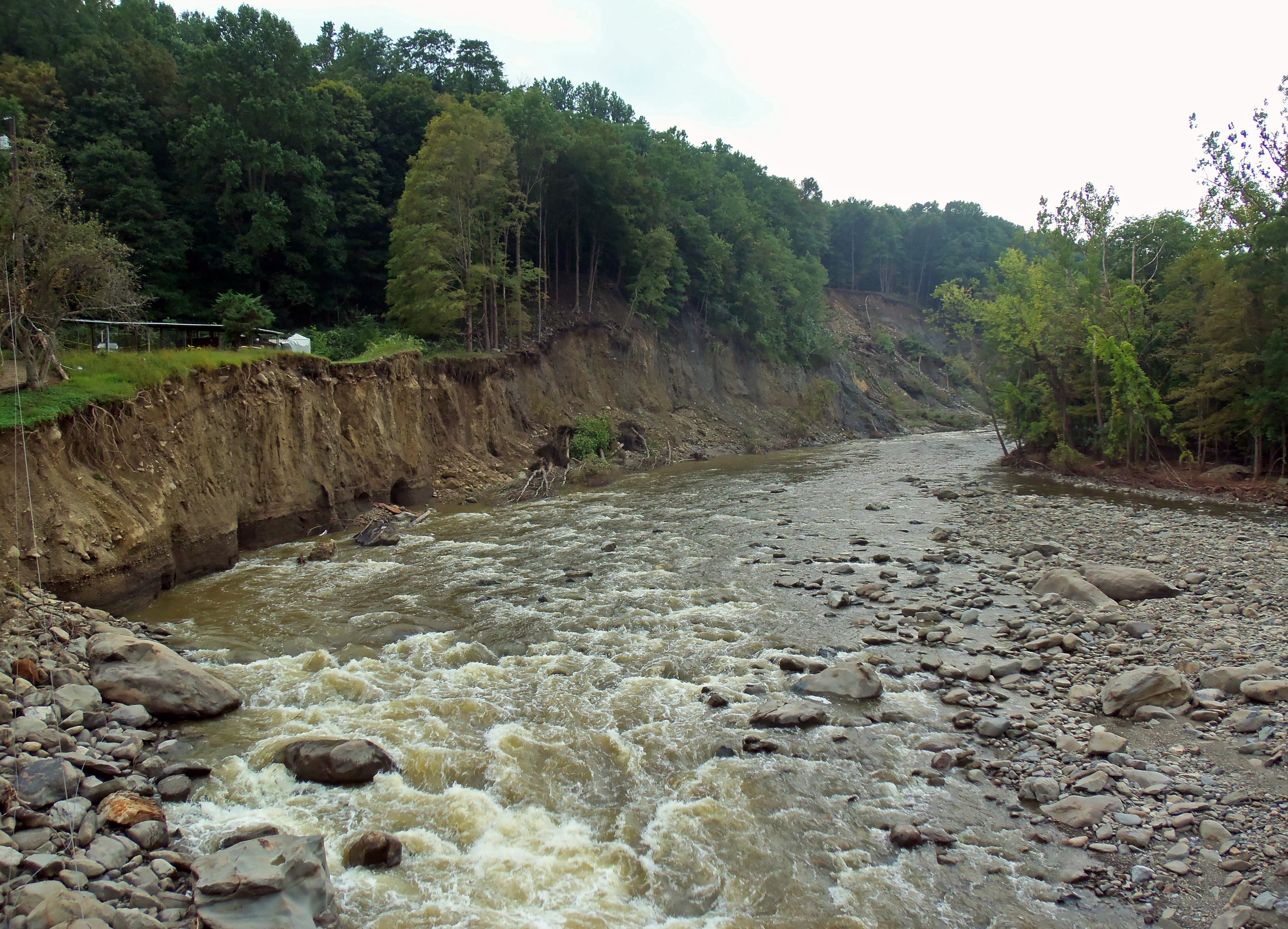 Moodna Creek from Forge Hill Road Bridge, New Windsor, NY, USA, showing new, wider channel created by flooding after Hurricane Irene three weeks earlier. Compare with this image taken from same spot in 2007.